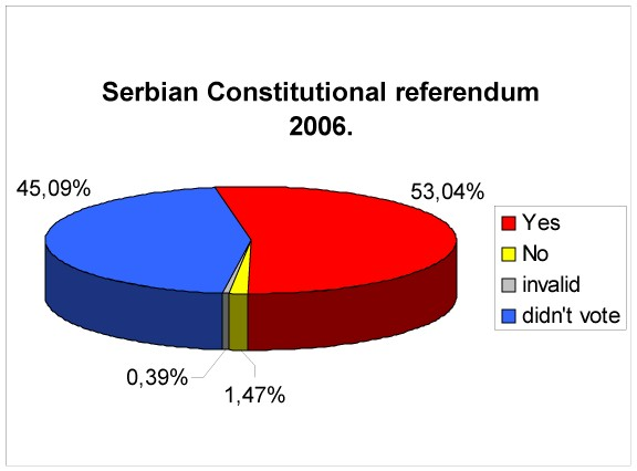 Graphical presentation of result of Serbian Constitutional referendum in 2006.